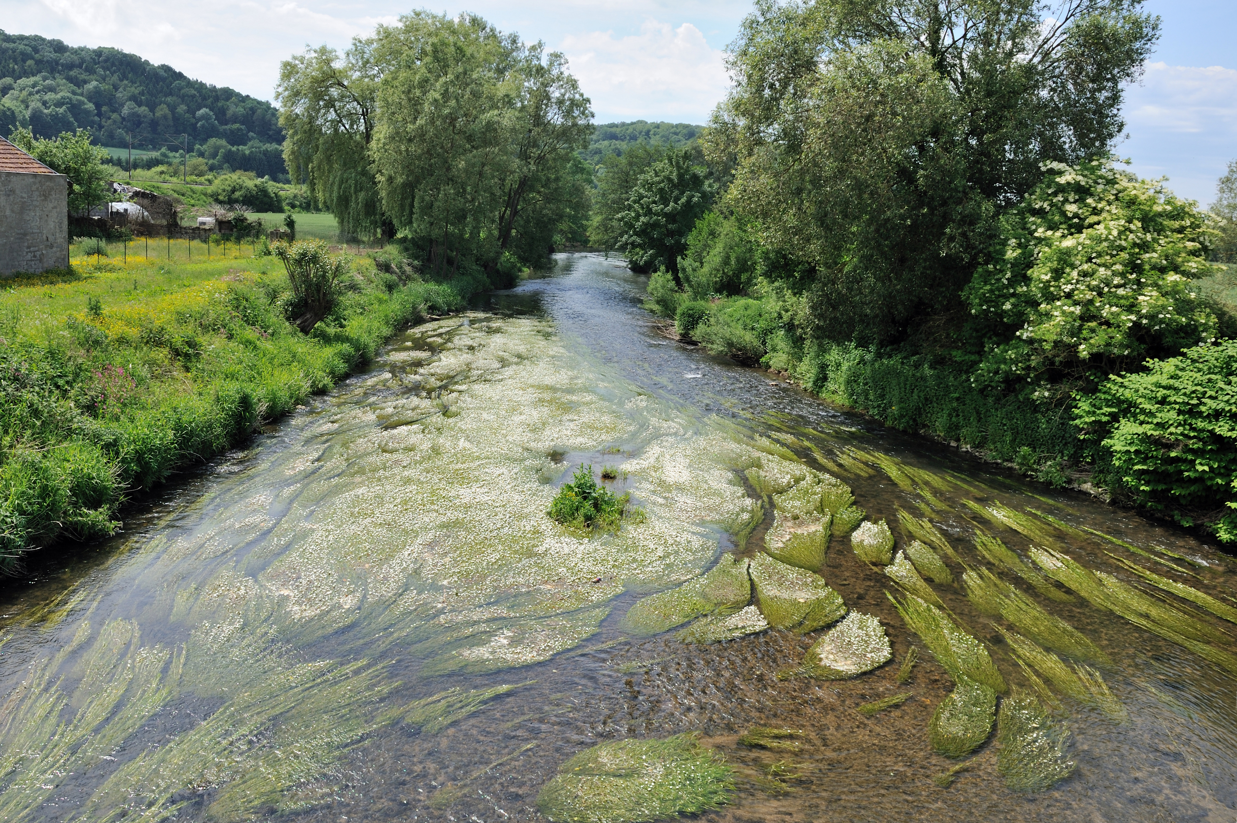 The river Chiers seen from the bridge that crosses the river at Charency-Vezin, department of Meurthe-et-Moselle, region of Lorraine (France)